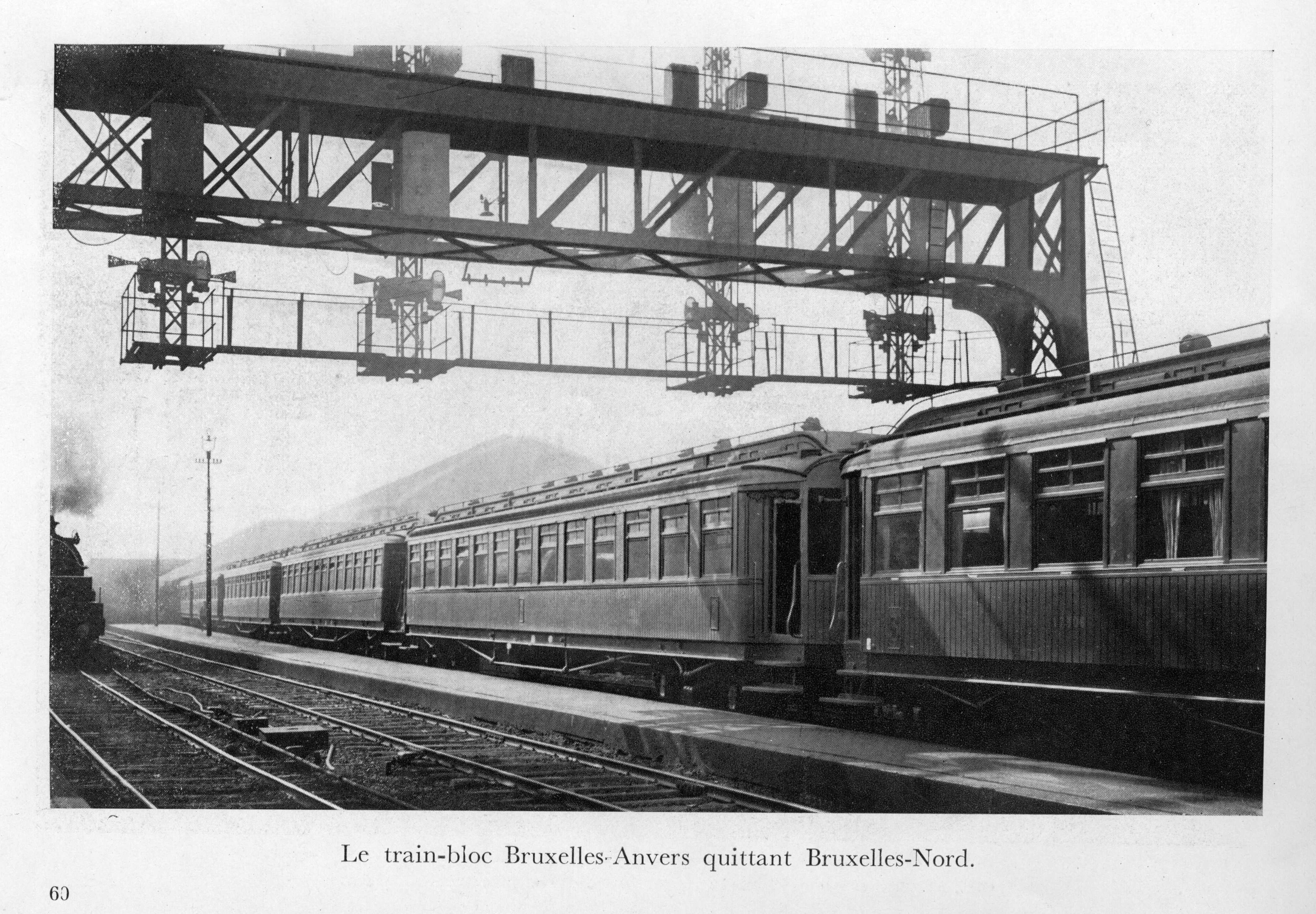 Bloktrain leaving Brussels North in the 1920's